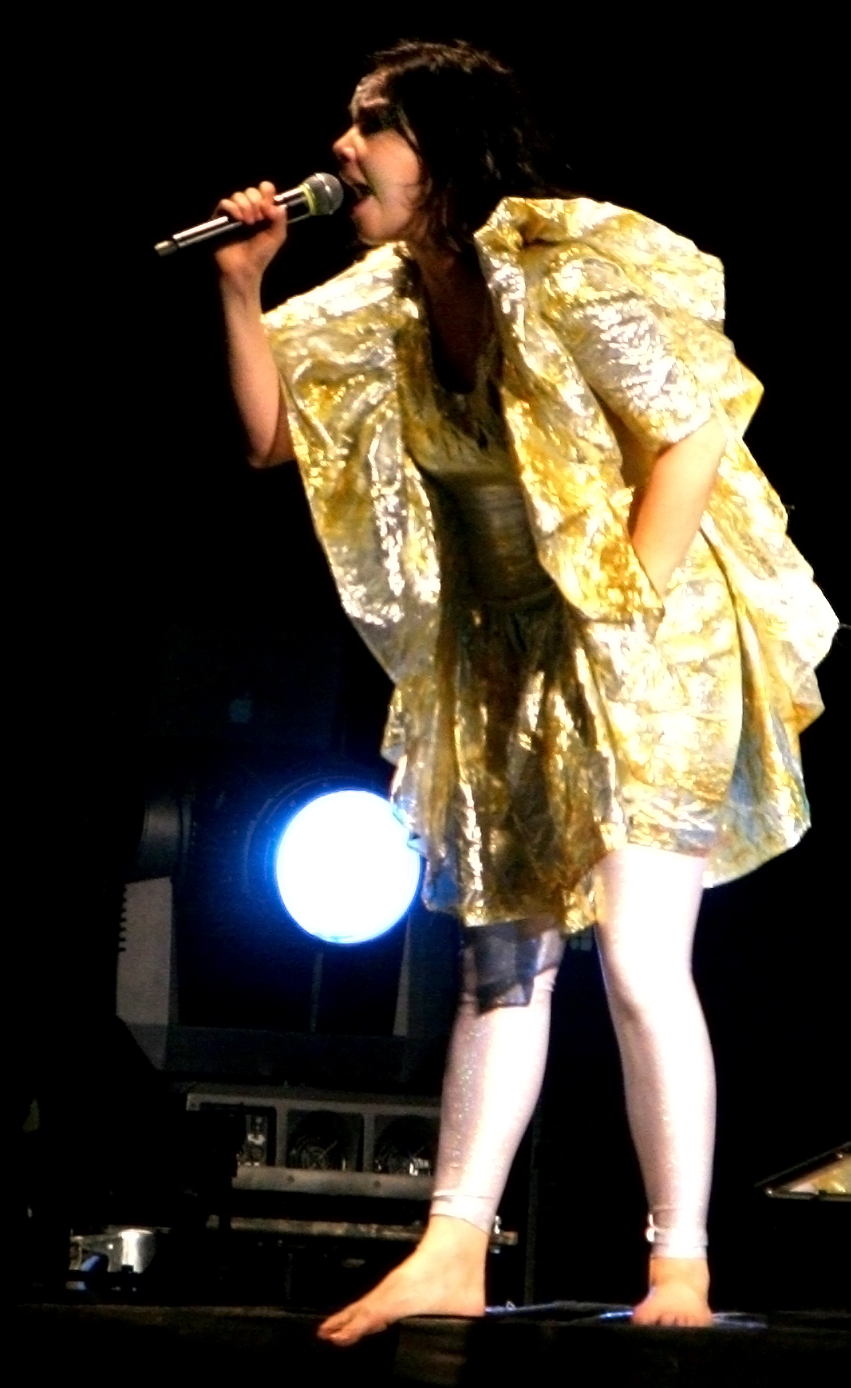 Björk at Festival Rock en Seine, Paris, France.This is not noisy.